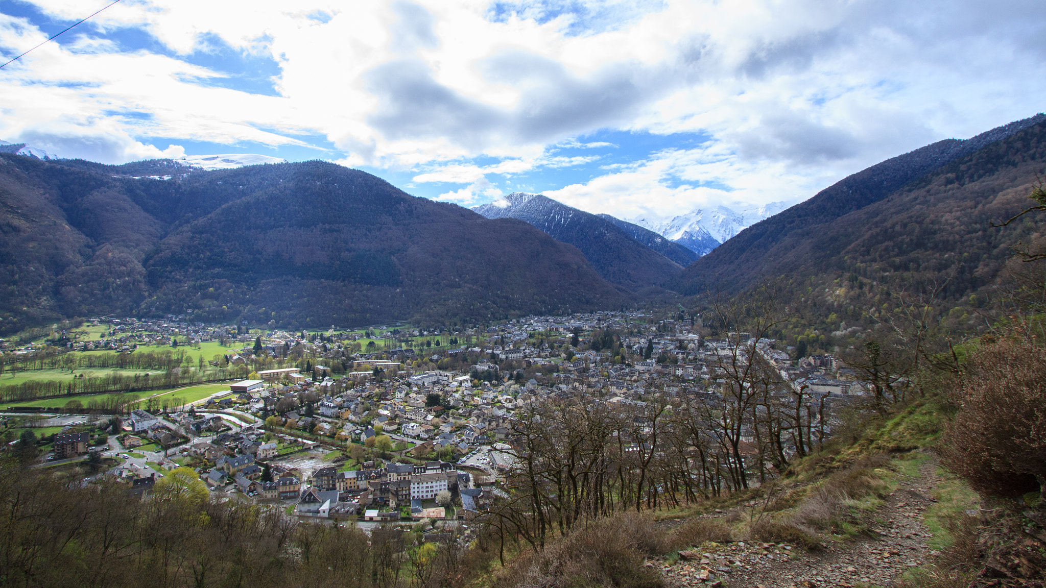 500px provided description: Hiking in the Pyren?es, we could see the beautiful valley where the city of Luchon is settled. [#landscape ,#cloudscape ,#france ,#mountain ,#valley ,#hill ,#scenery ,#ridge ,#scenic ,#hike ,#mountain peak ,#mountain range ,#snowcapped ,#rolling landscape]